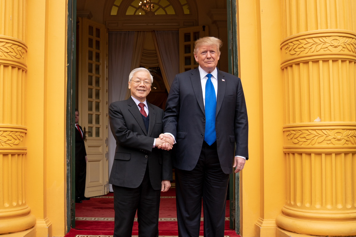 President Donald J. Trump is welcomed by Nguyen Phu Trong, General Secretary of the Communist Party and President of the Socialist Republic of Vietnam, to the Presidential Palace Wednesday, Feb. 27, 2019, in Hanoi. (Official White House Photo by Shealah Craighead)